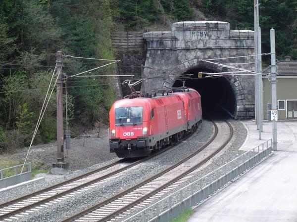 The northern entrance of the Karawanken Tunnel Picture by Robert Steiner 2004